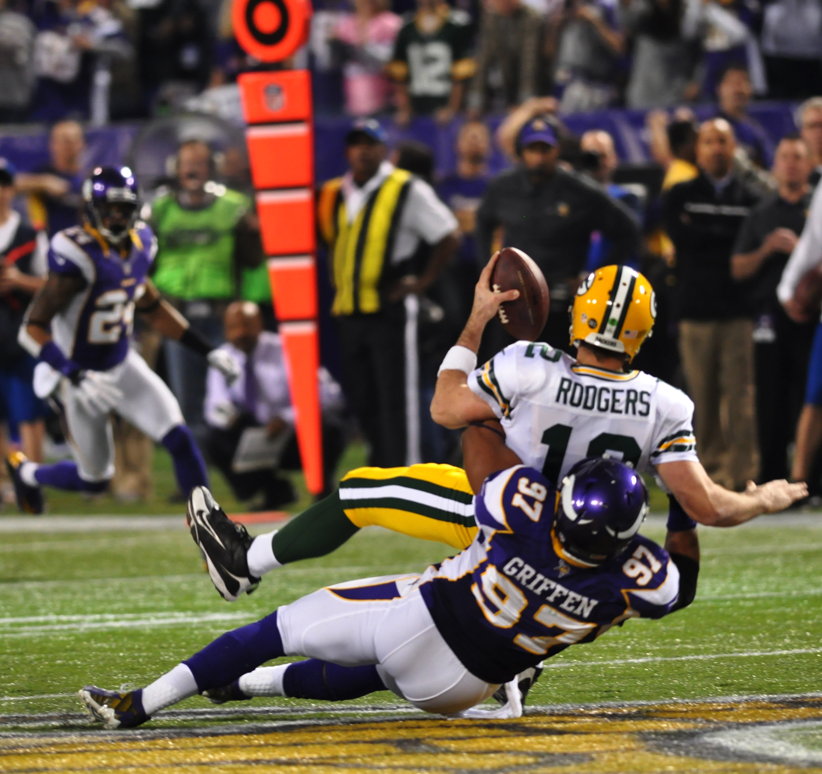 Minnesota Vikings DE Everson Griffen while putting a sign in one of his 3 sacks on Aaron Rodgers in GB at Min 2012